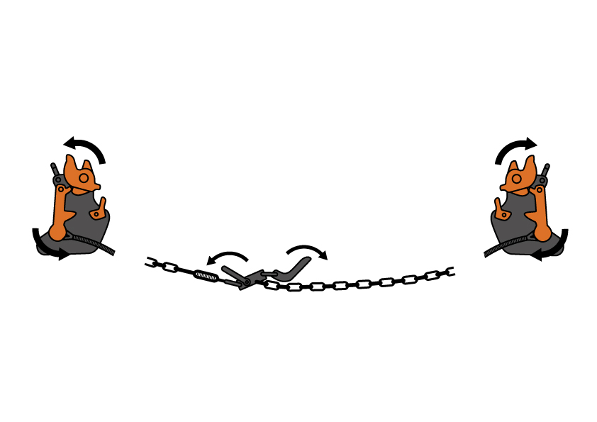 The Disengaging Gear cams fully release the two Falls simultaneously, and the boat drops safely into the water.